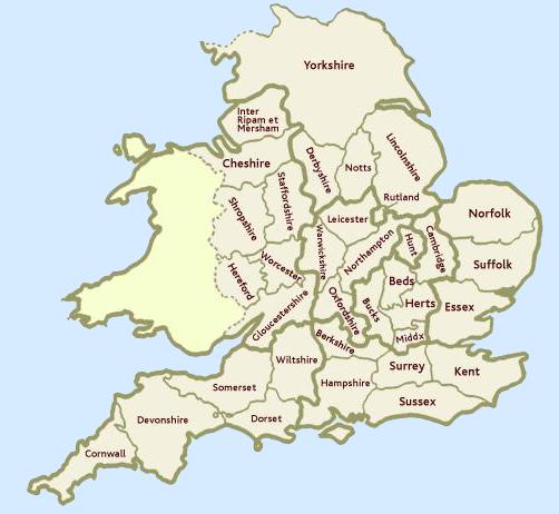 Counties of England in the year 1086, as documented in the Doomsday Book, after the Norman Conquest. The northern counties of Cumberland, Westmorland and Northumberland had not yet been conquered and were then part of the Kingdom of Strathclyde, while the County Palatine of Durham was excluded because the Bishop of Durham had the exclusive right to tax it. The omission of other counties is not fully explained.